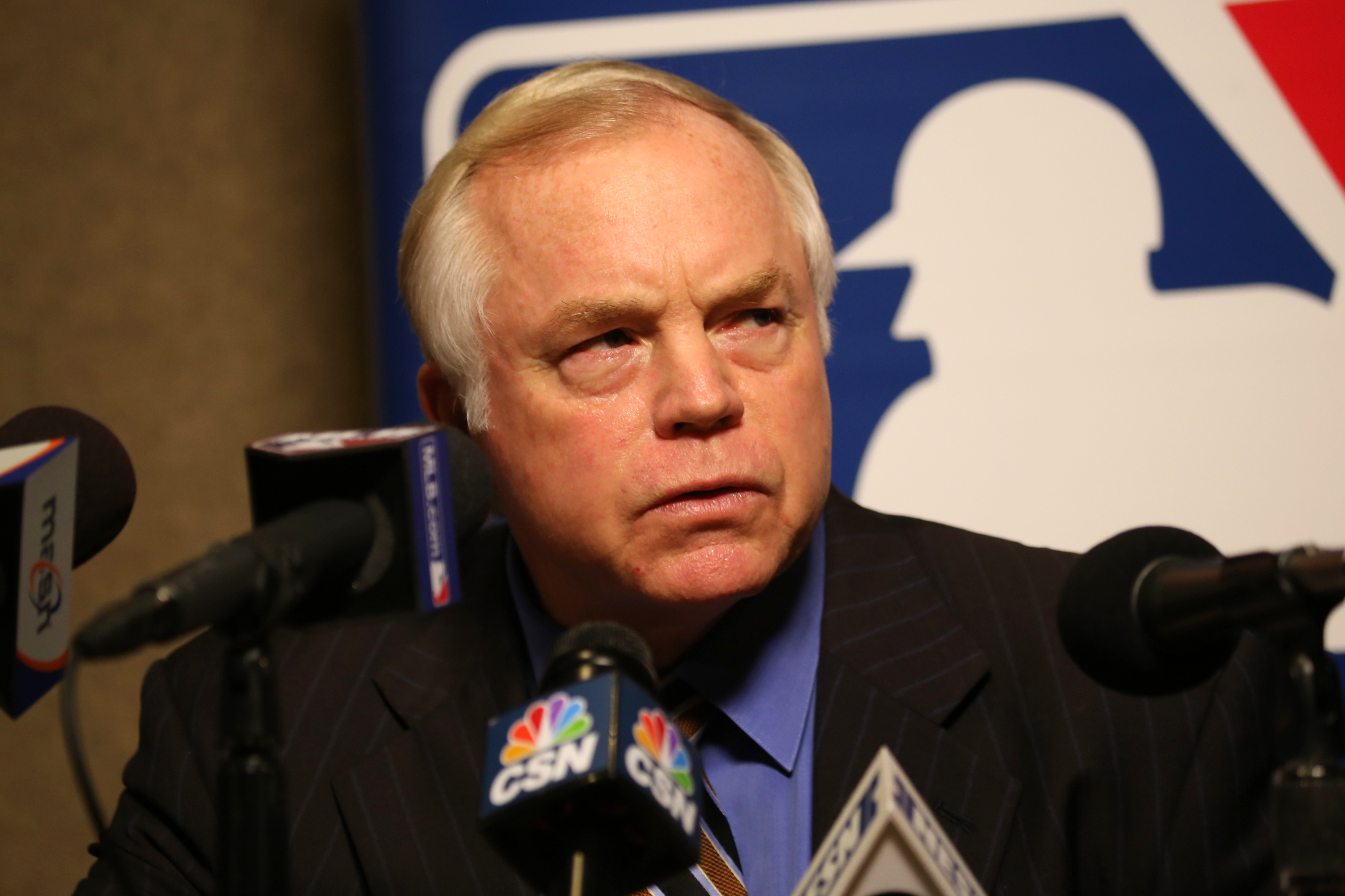 Orioles manager Buck Showalter talks to reporters at the #WinterMeetings.